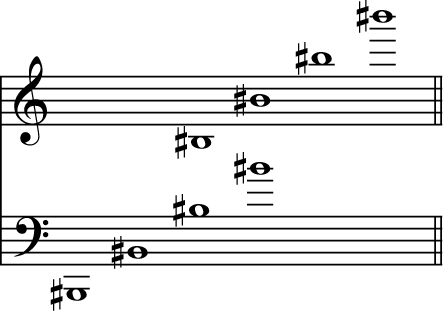 Notes, B Sharp